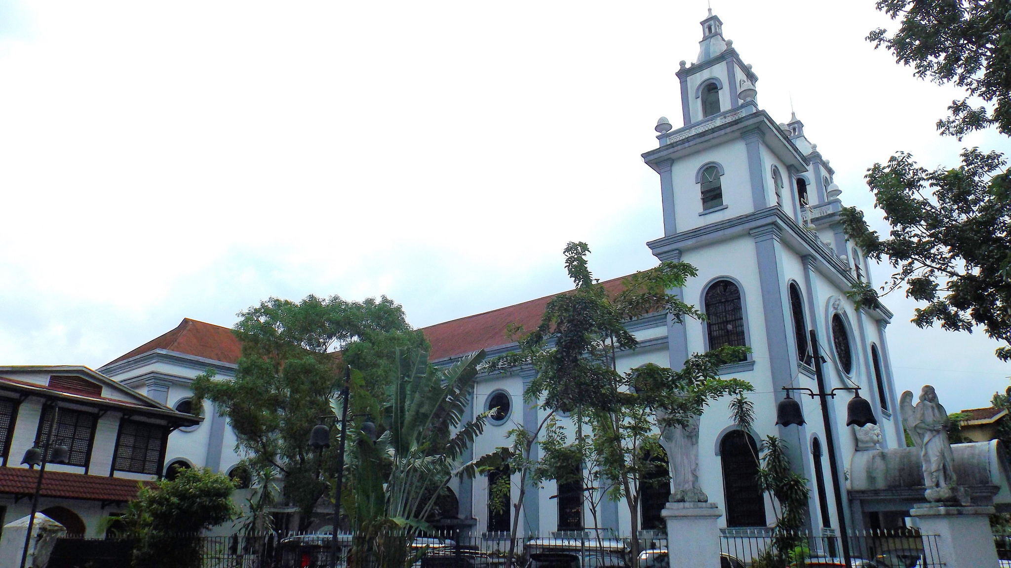 Northern facade of the church